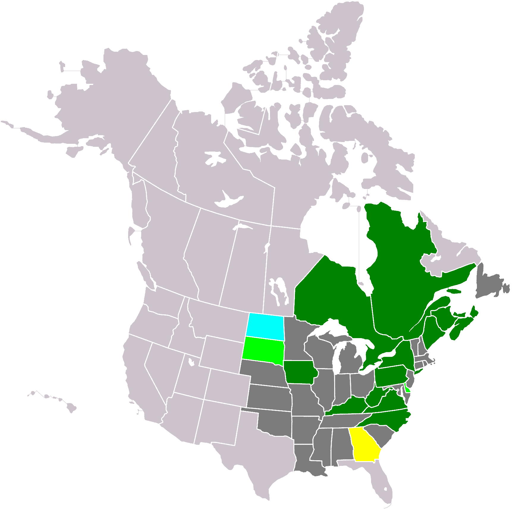 North America conservation status by state/province for Acer saccharum